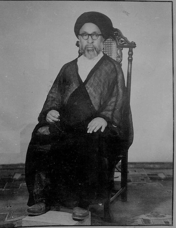 Ayatollah Aqa Syed Ahmed Rizvi Kashmiri [r]